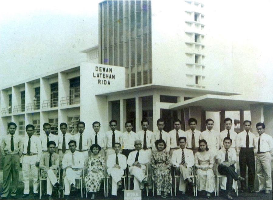 Cohort students in Dewan Latihan RIDA, Jalan Othman, 1956